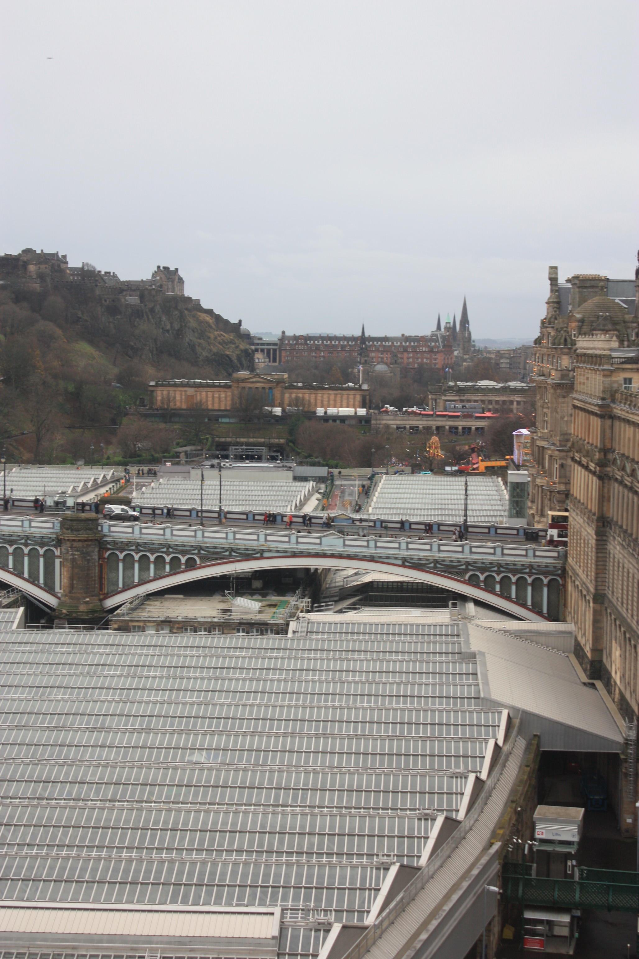 Waverley Station roof from the north-east